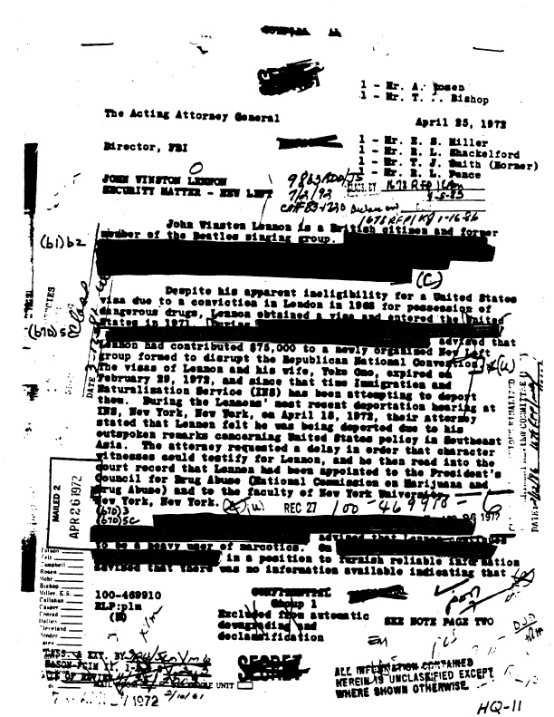 In the early 1970s, the US government conducted surveillance on ex-Beatle John Lennon. This is a letter from FBI director J. Edgar Hoover to the Attorney General. After a 25-year Freedom of Information Act Request battle initiated by historian Jon Wiener, the files were released. Here is one page from the file. This first release received by Wiener had some information missing -- it had been blacked out presumably with magic marker -- or what is termed "redacted". A subsequent version was released which showed almost all of the previously blacked-out text.